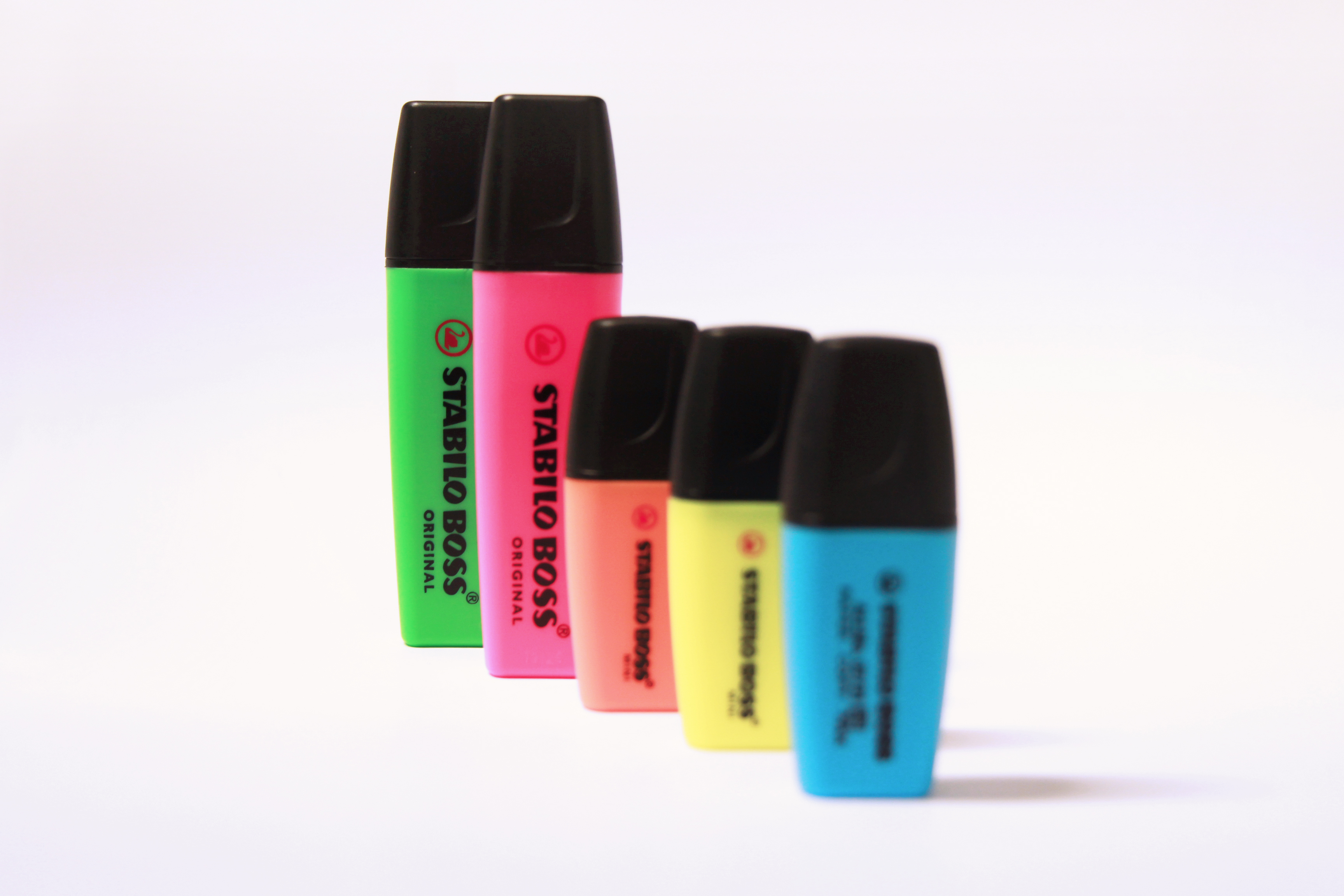 Stabilo Boss Original et mini